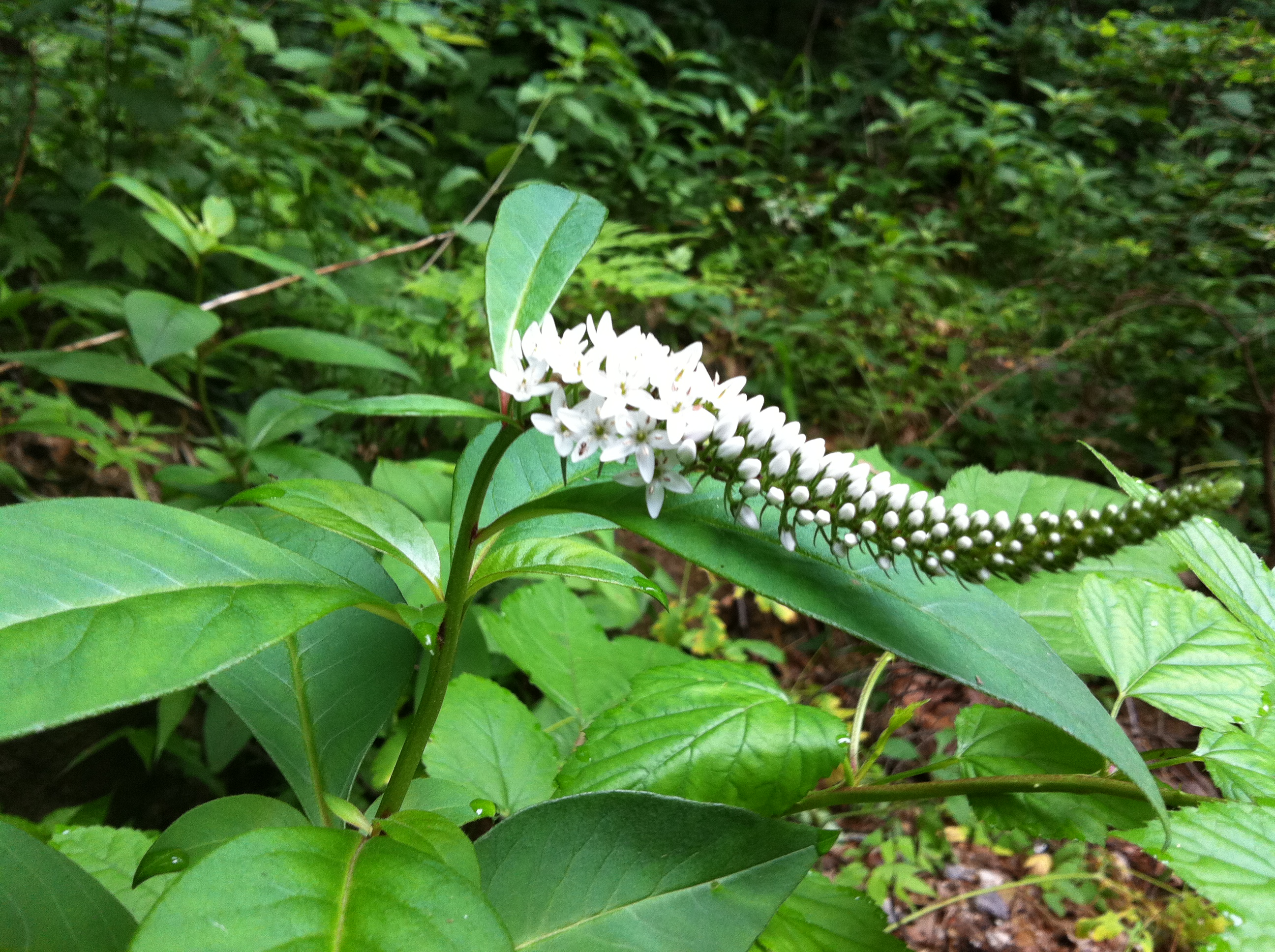 Lysimachia barystachys at Gyeonggi-do, Korea